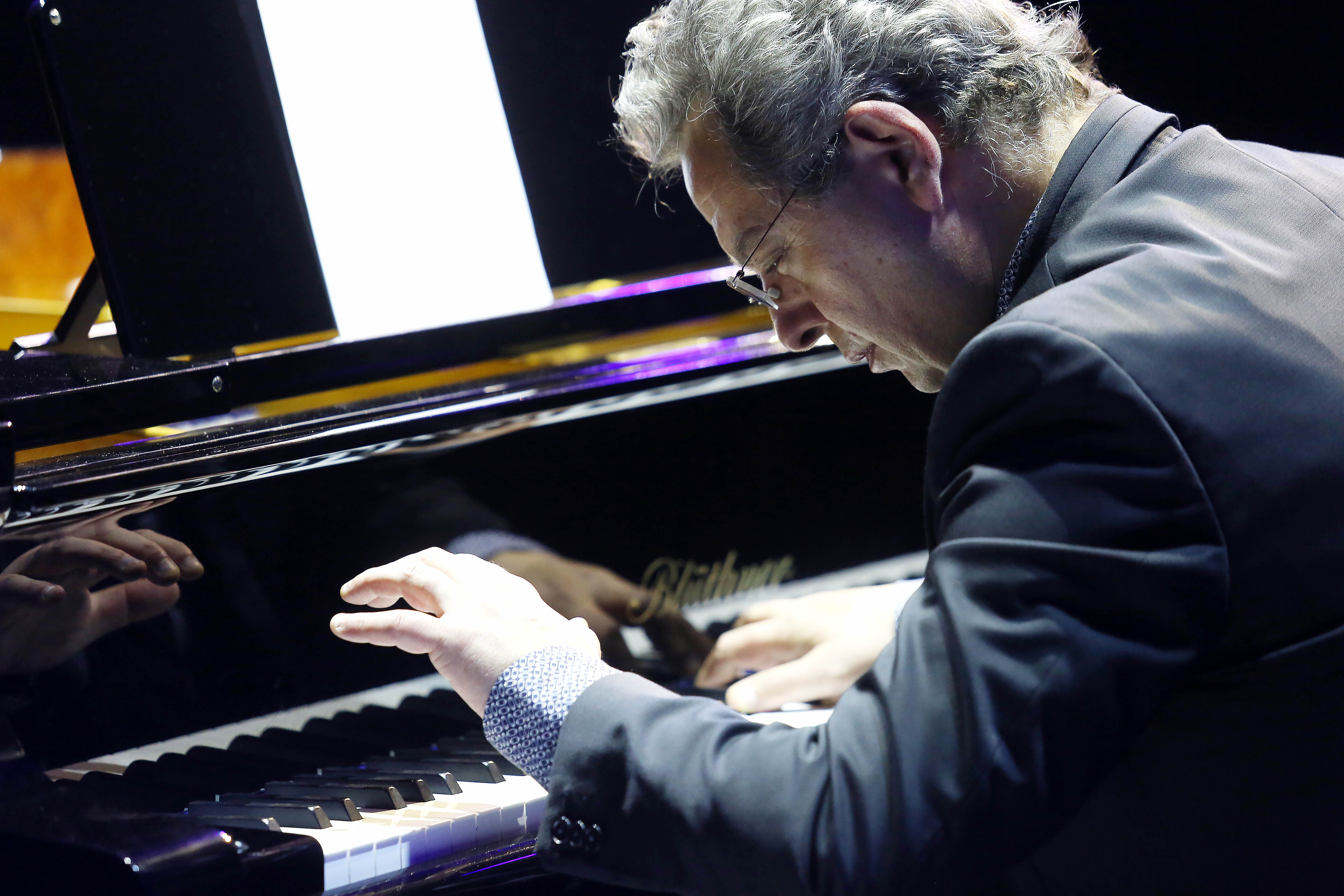 Concert à l'université de la sorbonne à Abu Dhabi